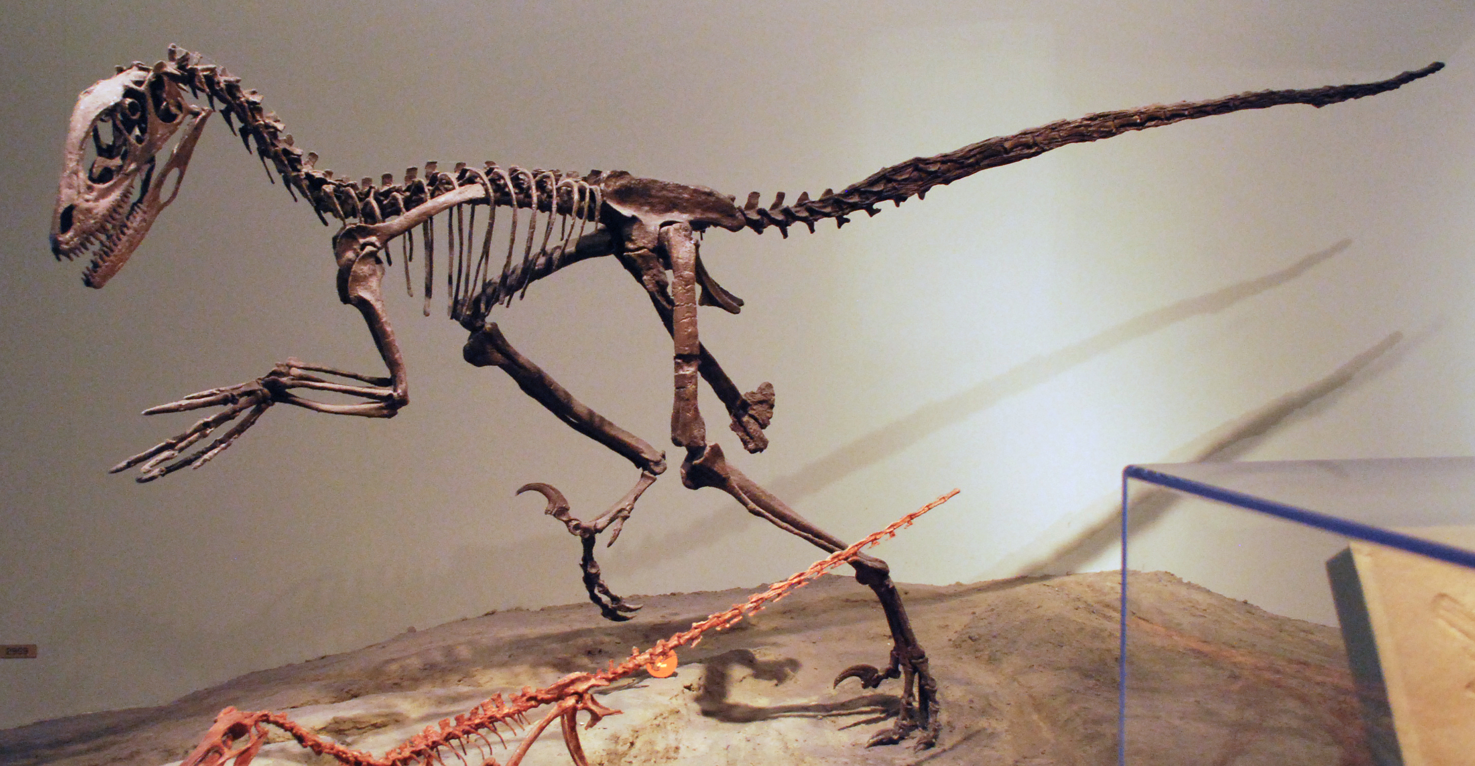 Skeleton of the dromaeosaurid dinosaur Deinonychus at Field Museum of Natural History. At the bottom is the skeleton of Buitreraptor.